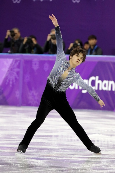 Shoma Uno at the 2018 Winter Olympics